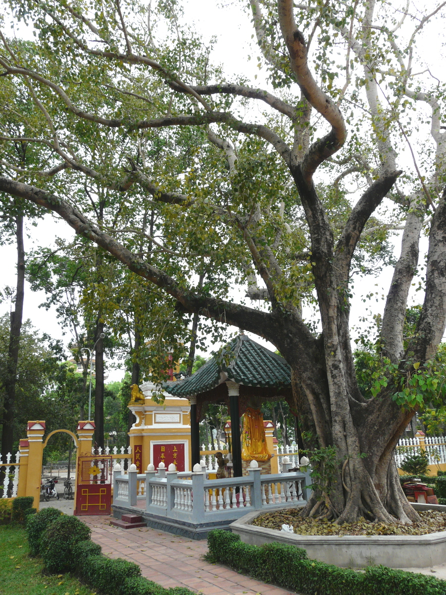 This bodhi tree stands in the gardens at Giac Lam Pagoda, Ho Chi Minh City